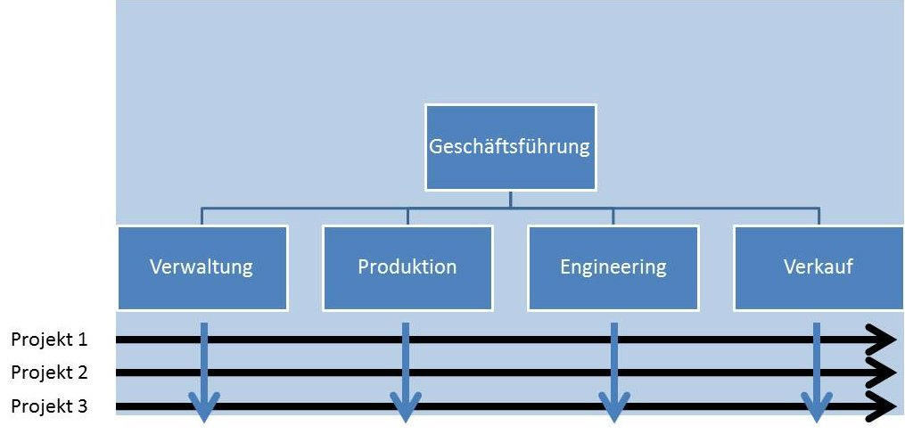 Matrix organization in projects